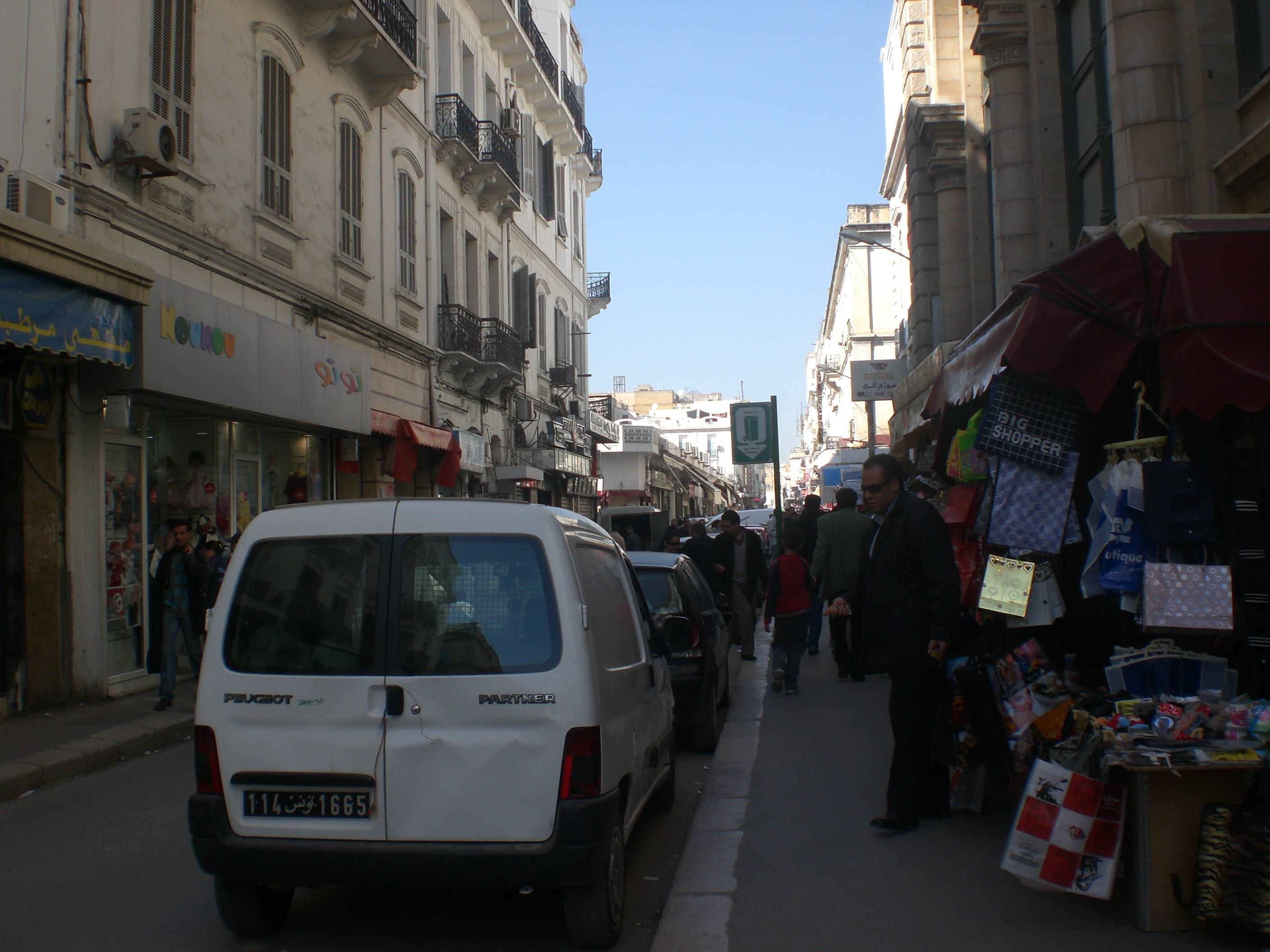 Street Charles de Gaulle-Tunis